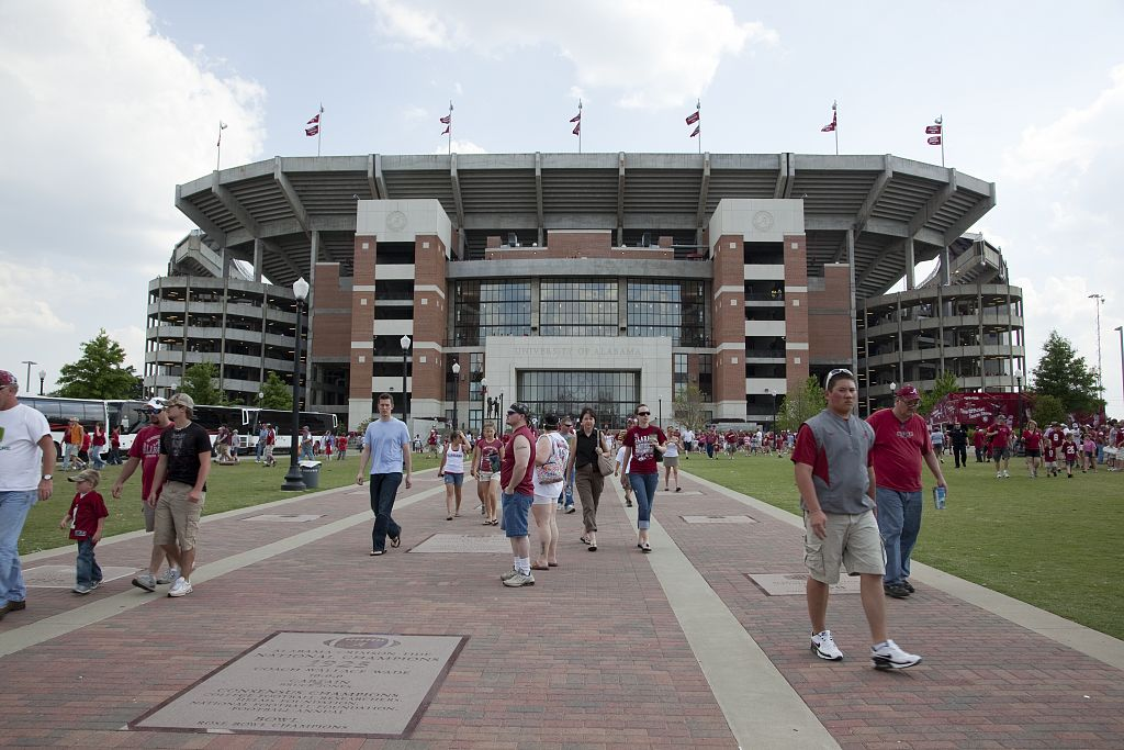 Fans pour out of the A-Game, a spring scrimmage at the University of Alabama, Tuscaloosa, Alabama